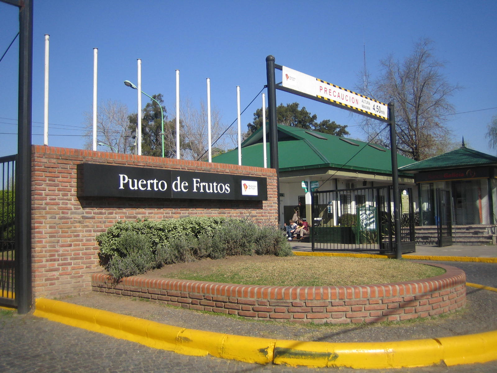 Port and fruit market - Tigre - Buenos Aires Province - Argentina